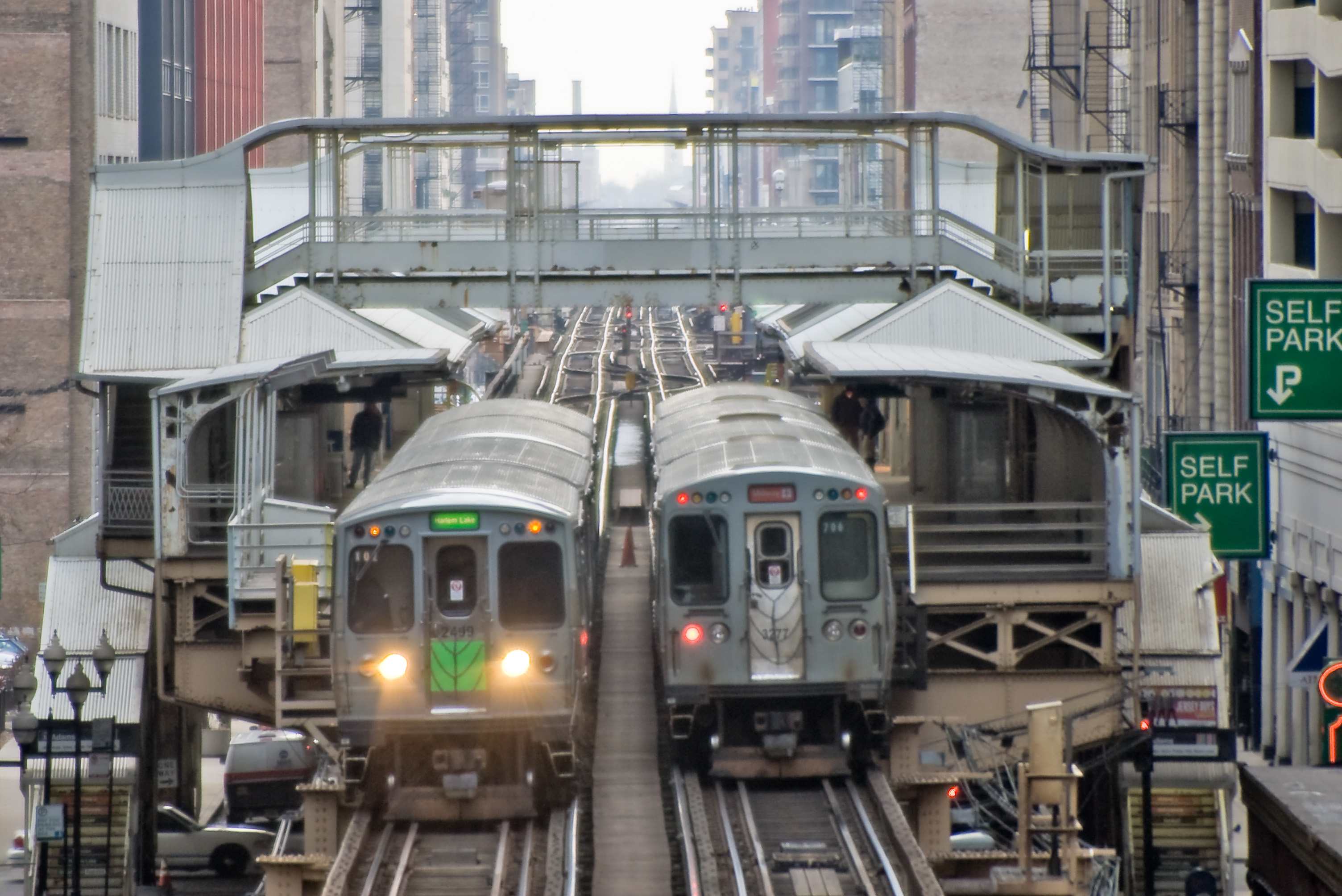 Adams and Wabash 'L' station in the Chicago Loop